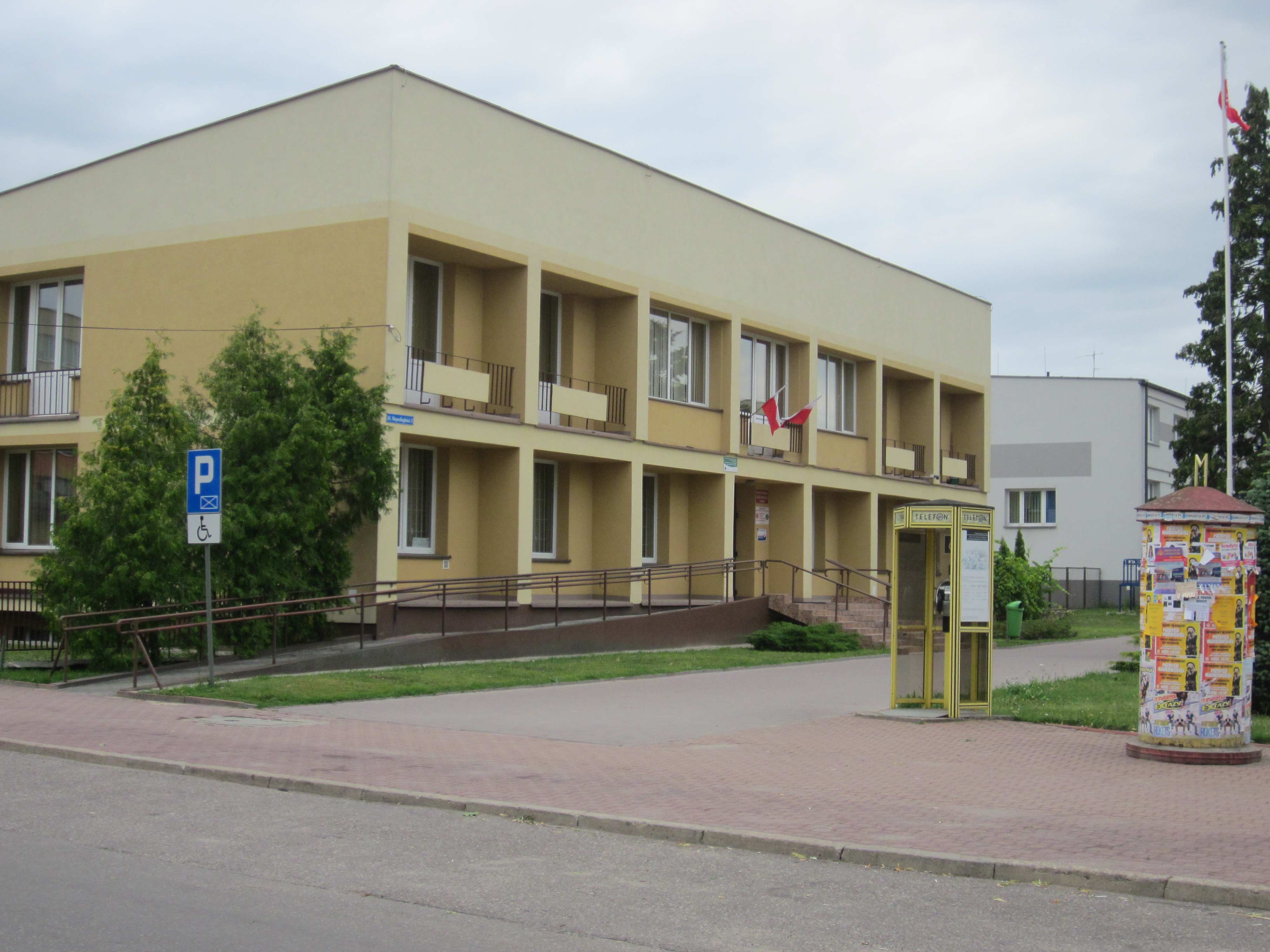 Government, offie building in Mońki, at 3 Niepodległości Avenue